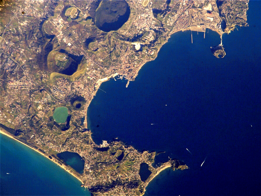 Pozzuoli and the Campi Flegrei. Photo taken from the ISS.